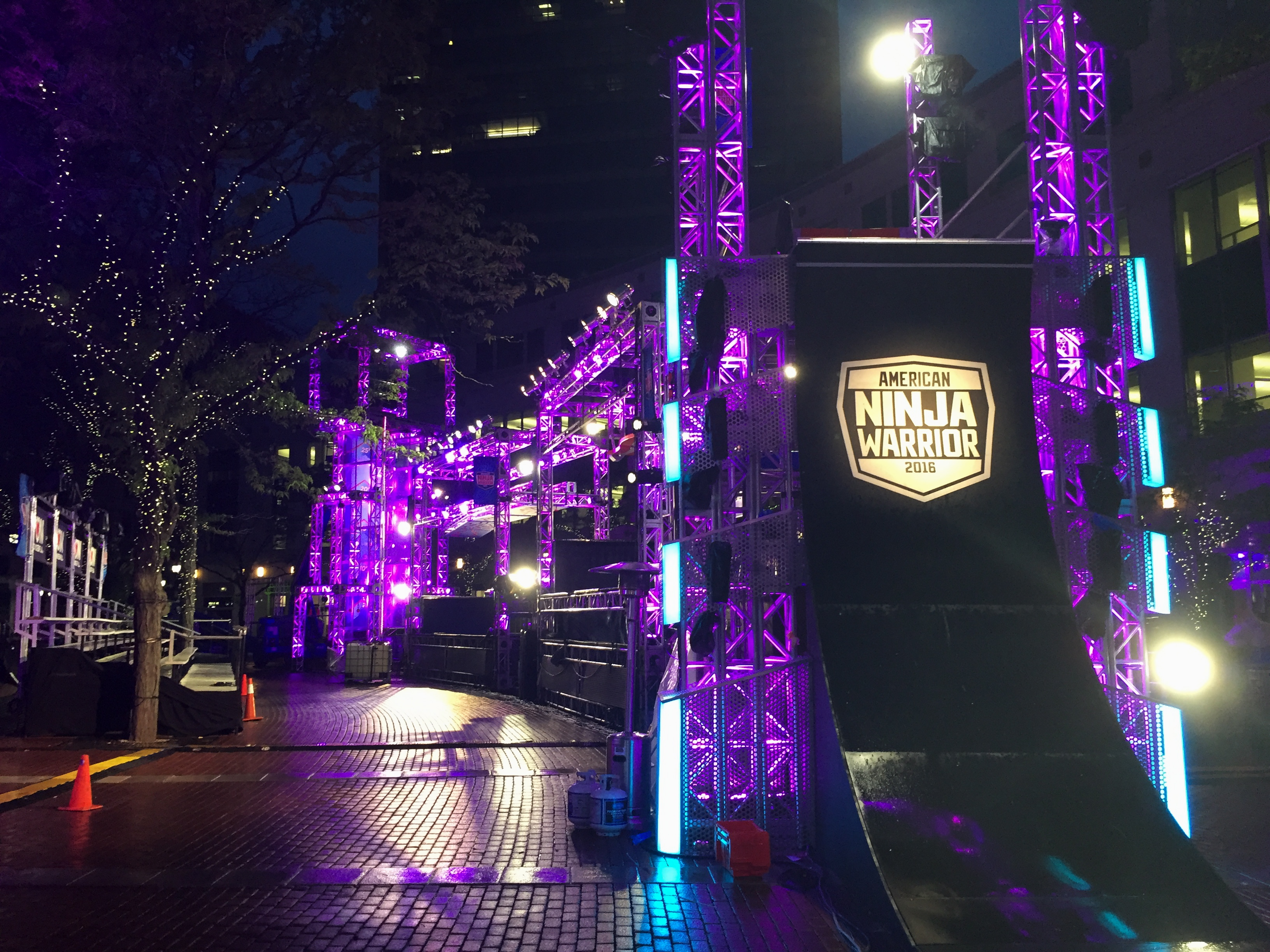 The iconic Warped Wall and the second part of the course, used for City Finals, at Indianapolis during American Ninja Warrior season 8. Located at Monument Circle, this was the first time ever that the course was built in a curve.